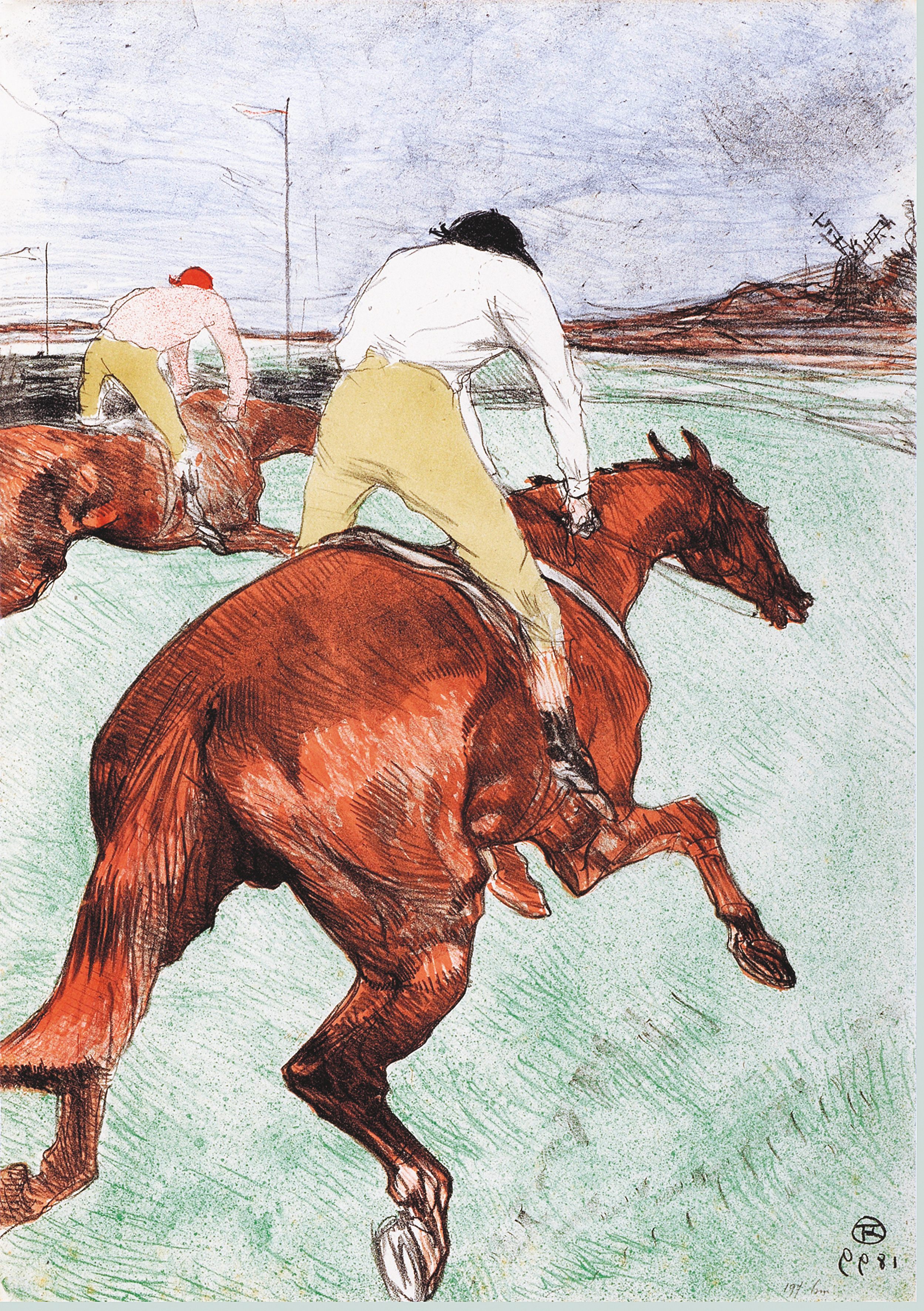 Le Jockey crayon, brush and spatter lithograph, printed in six colours. Key stone printed in black, colour stones in turquoise-green, red, brown, gray-beige and blue on China paper state II/II 51.8 x 36.2 cm 1899